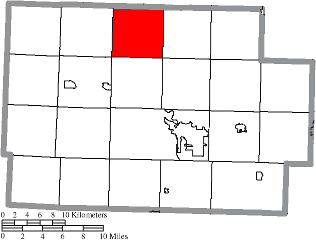 Map of the municipal and township boundaries of Coshocton County, Ohio, United States, as of the 2000 census, with the location of Clark Township highlighted. Township borders are shown only in unincorporated areas in order to differentiate incorporated and unincorporated areas more clearly.